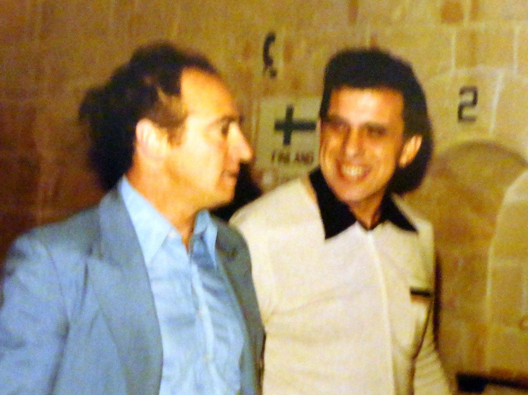 Lev Polugaevsky and Yuri Balashov, Chess Olympiad 1980 at Valletta in Malta.